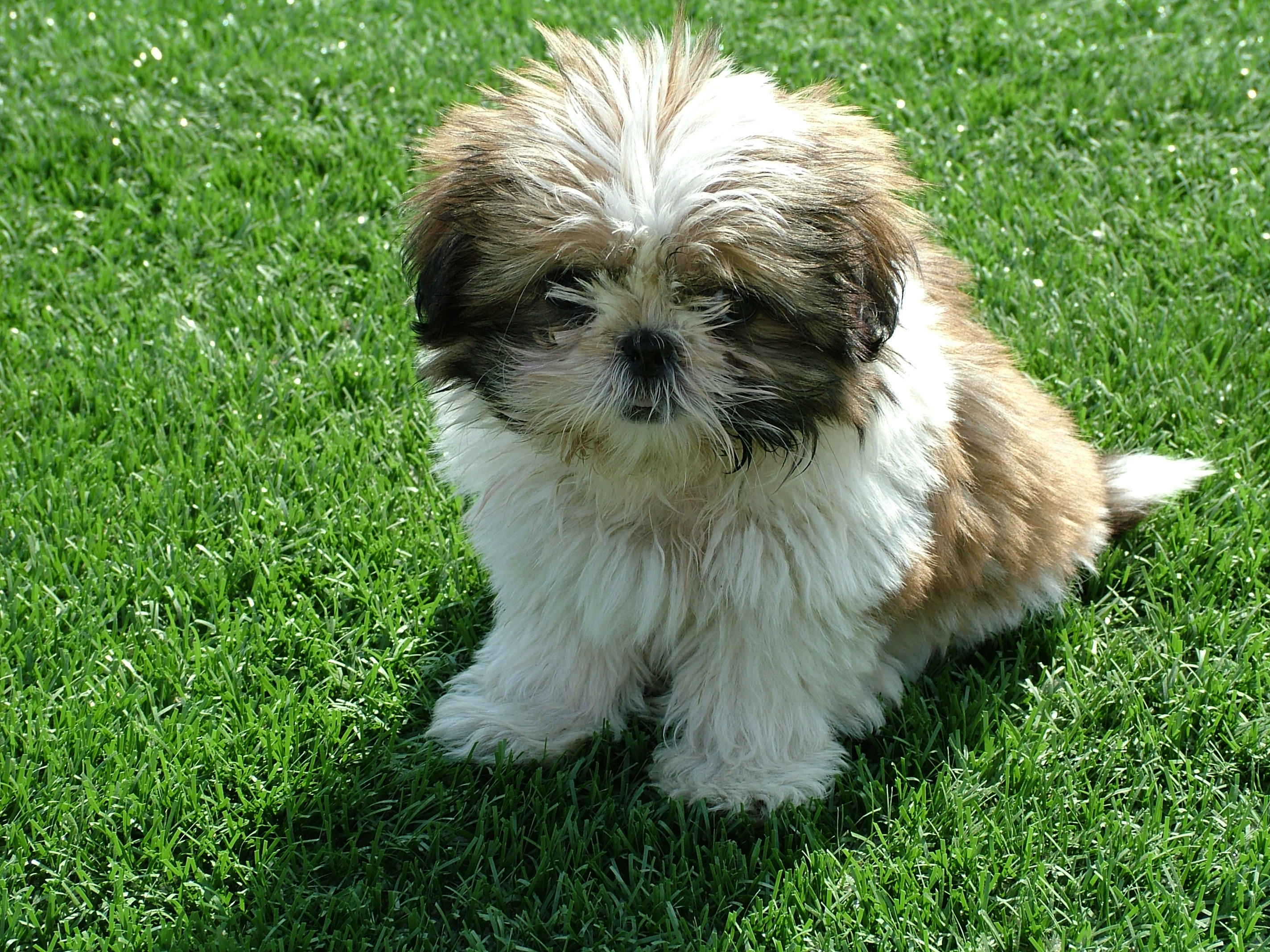 Pancho Shih-Tzu